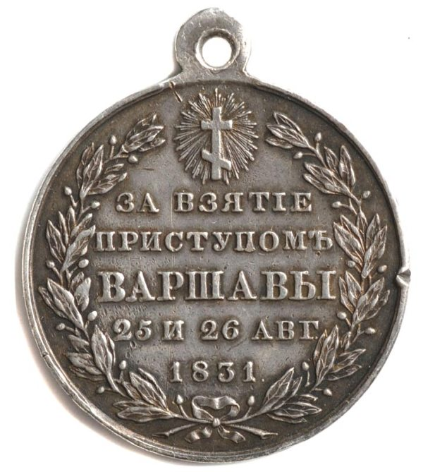 Warshav revers